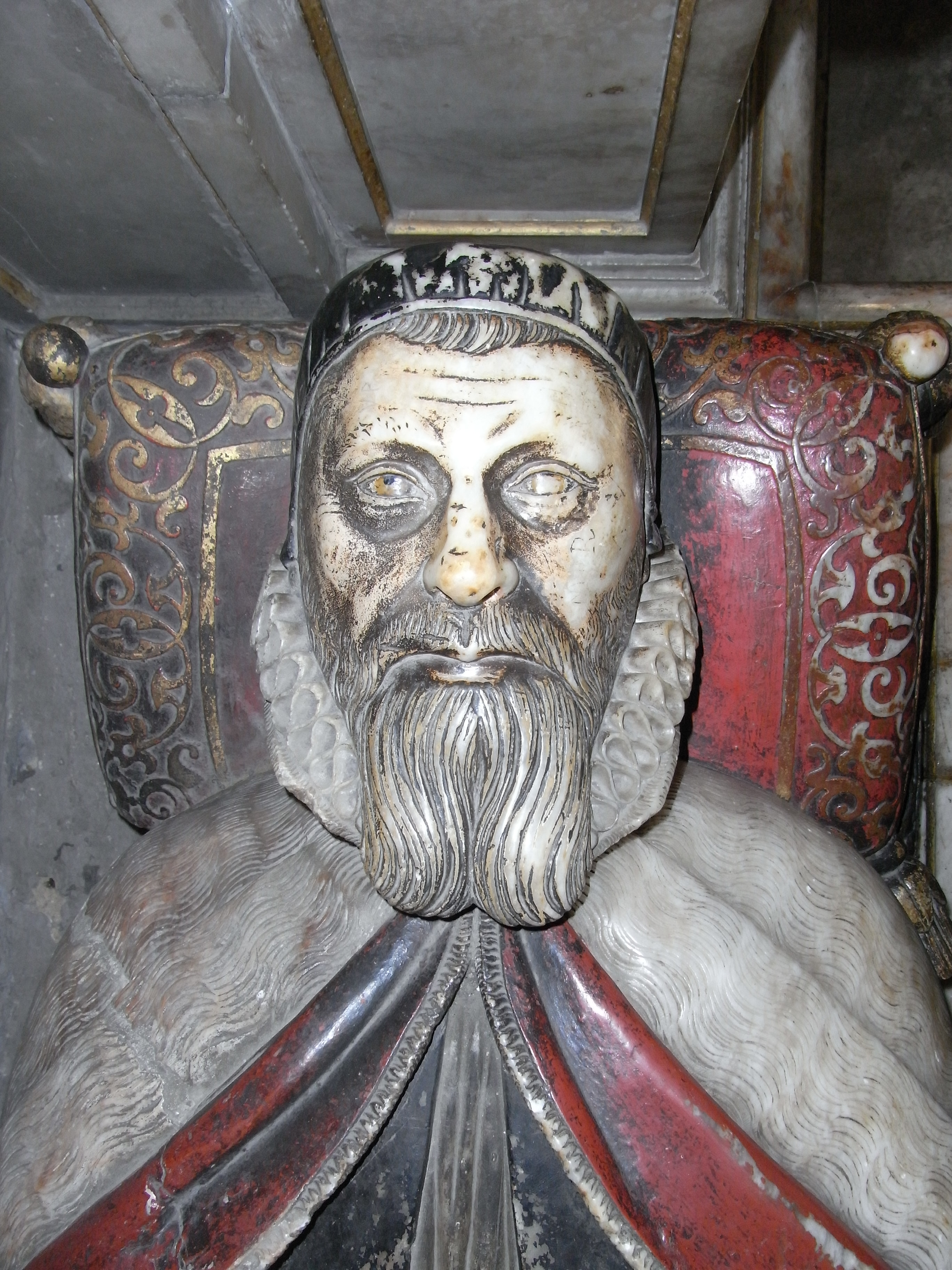 The effigy of John Still (c. 1543 – 26 February 1607/8), the Bishop of Bath and Wells, at his tomb along the east wall of Wells Cathedral, Wells, Somerset, England, UK, in the north transept leading into the Chapter House.